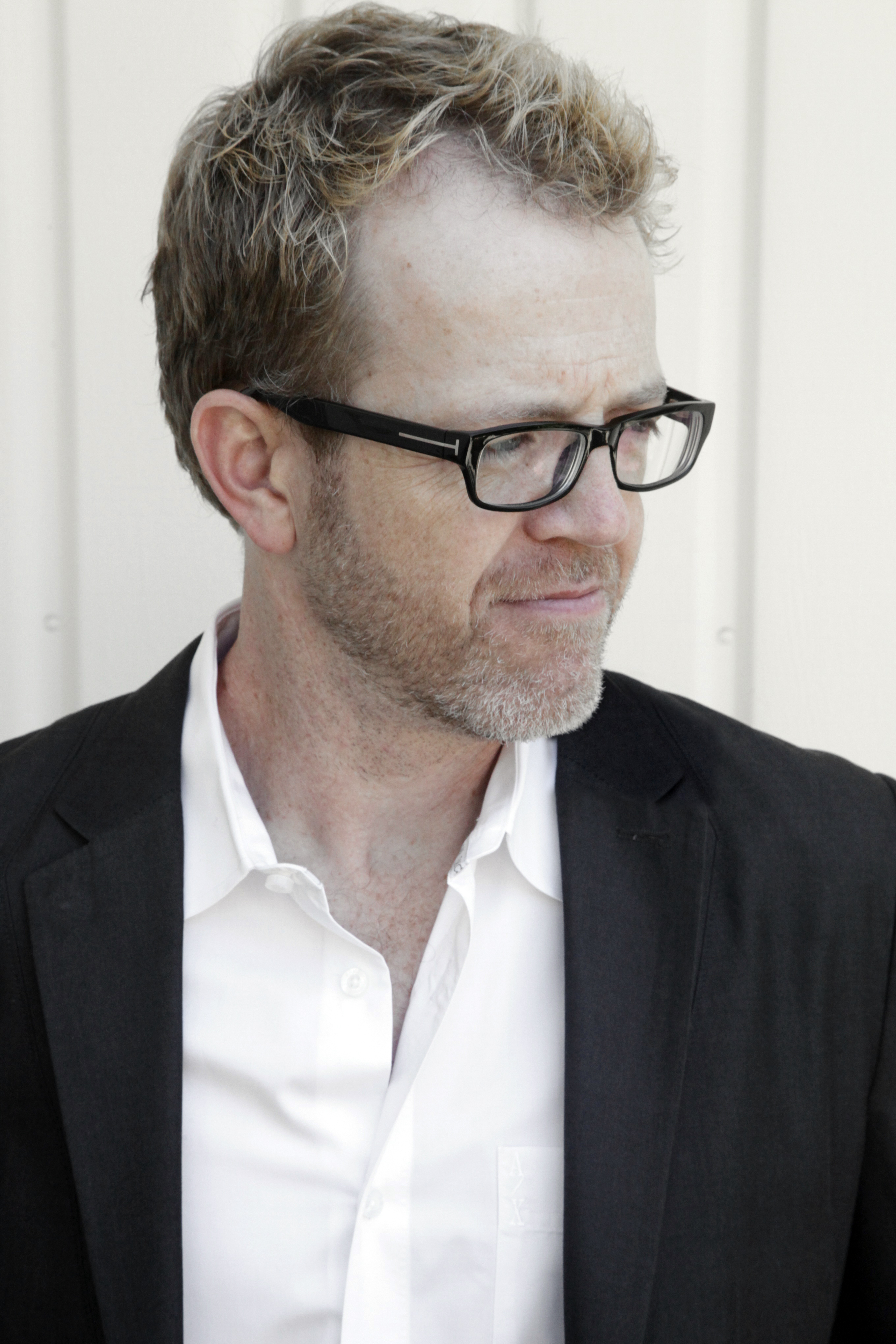 Headshot of top audiobook narrator Scott Brick, taken sometime in 2012. Scott Brick